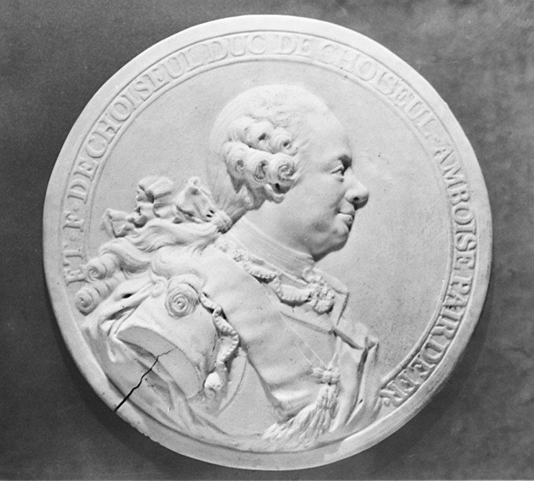 French, Sèvres; Medallion; Ceramics-Porcelain